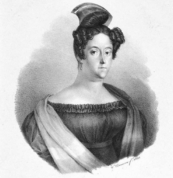 Portrait of Antera Baus, actress born in Cartagena 1797.